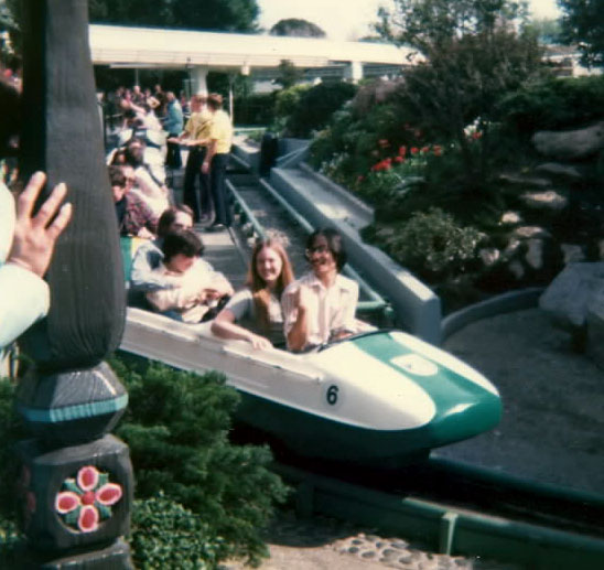 Matterhorn Bobsleds 1977 Taken by Ellen Levy Finch (User:Elf) 1977